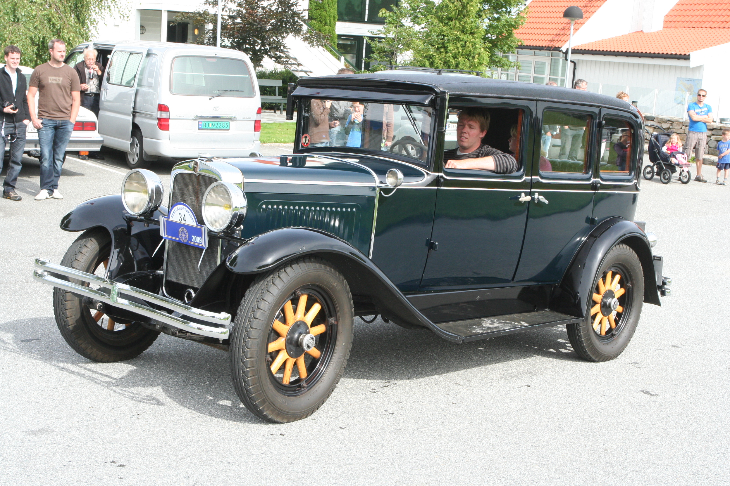 Captured at a Veteran-Car meeting on August 1, 2009 in Utstein, Norway. Jørgen was the owner at the time.